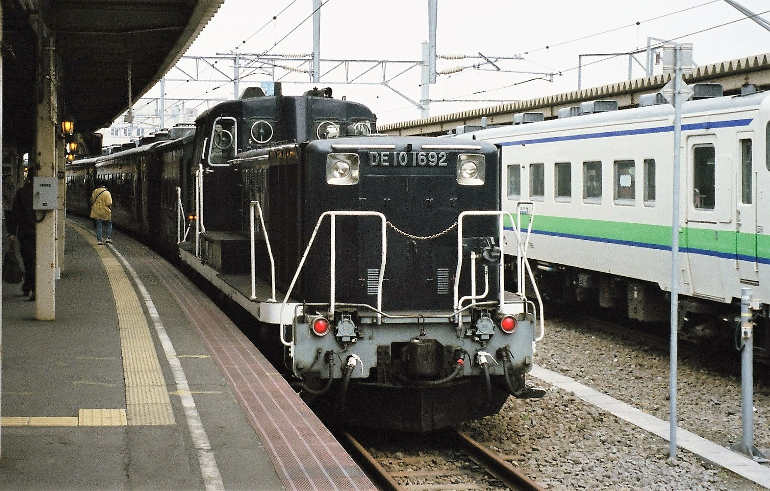 Hakodate Station